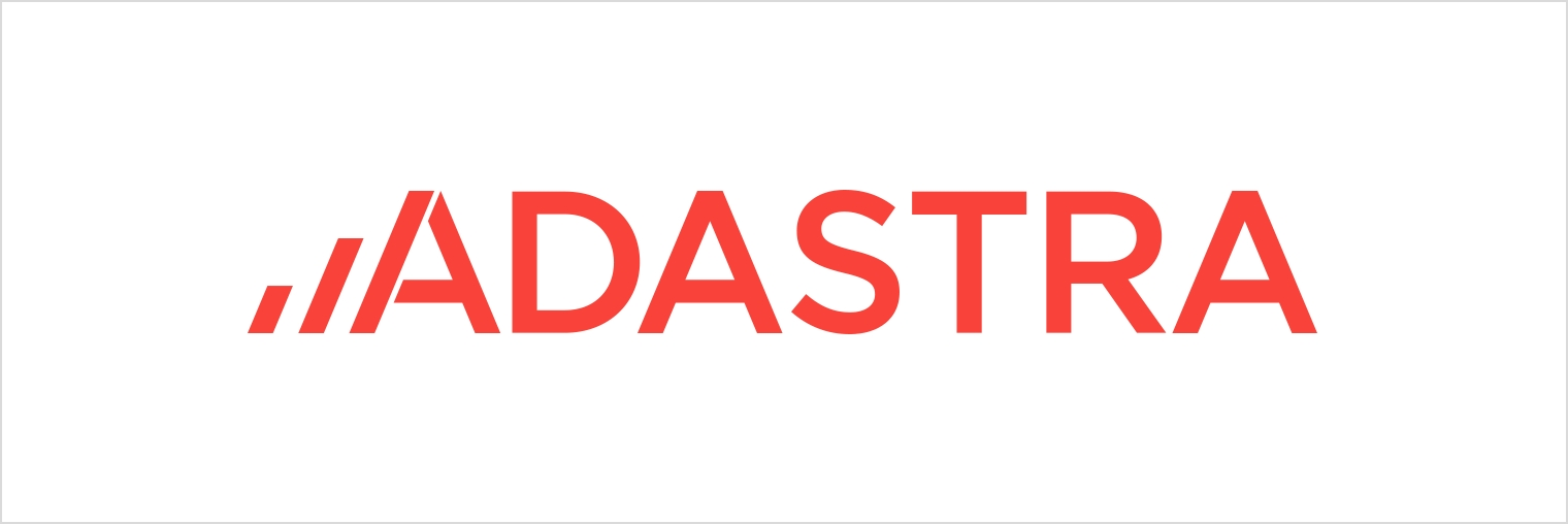 Logo of the company Adastra